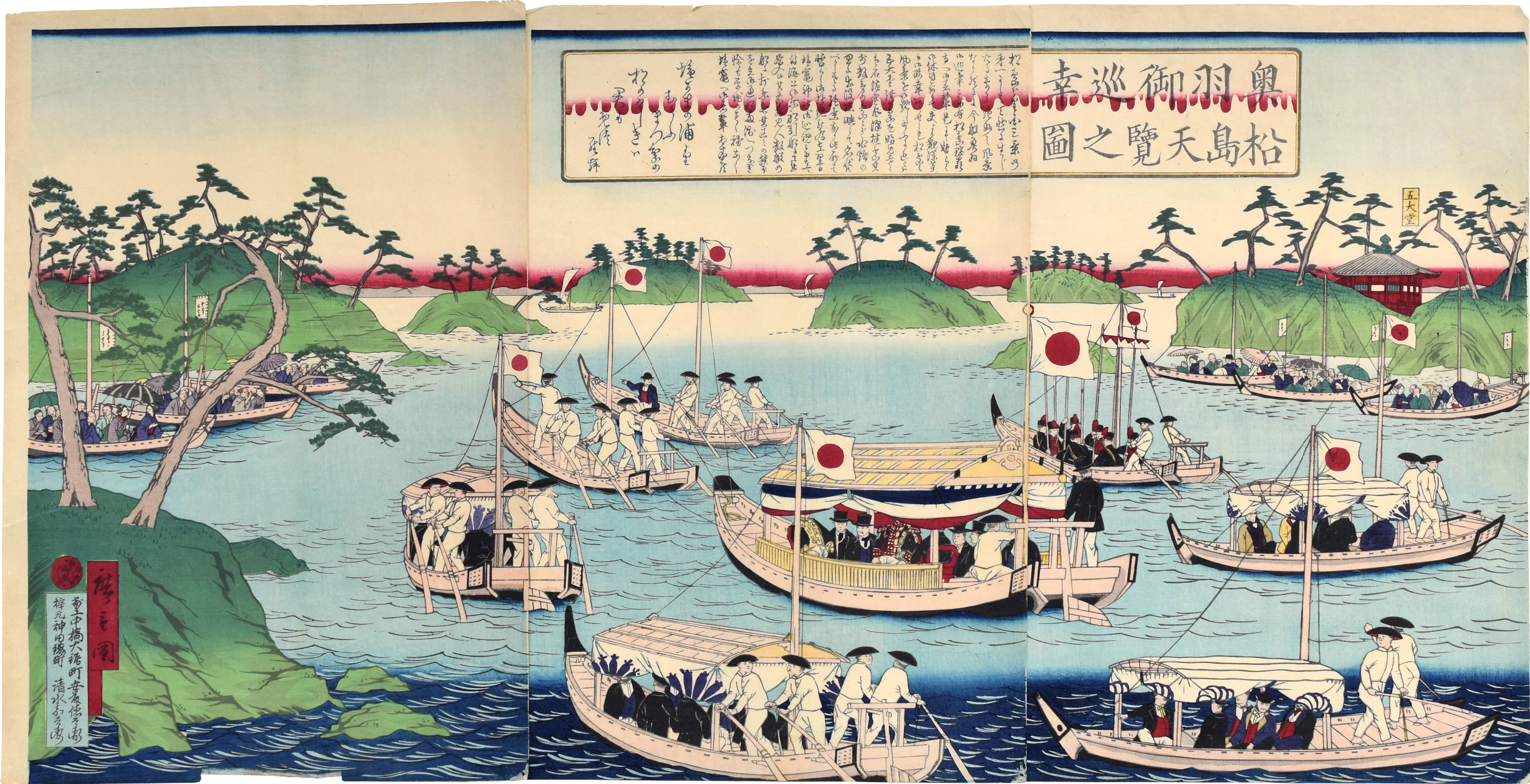 Ukiyo-e (Japanese art) made by Utagawa Hiroshige III (Ando Tokubei). The title in the top right side says "Ou gojunko matsushima tenran no zu." It means "Progression during the Imperial Inspection at Ou, Matsushima." The flag of Japan (Hinomaru) is clearly visible on the ships. In the lower left side red engraving it's signed by Hiroshige. The round seal in the lower left says it's dated at Meiji 9, 1876. The artist information says Gako, Ando Tokubei. The address information is Nakabashi Ogamachi. The publisher information says Hanmoto, Shimizu Kahei. The publisher's address is Kanda Nabemachi, 1876.